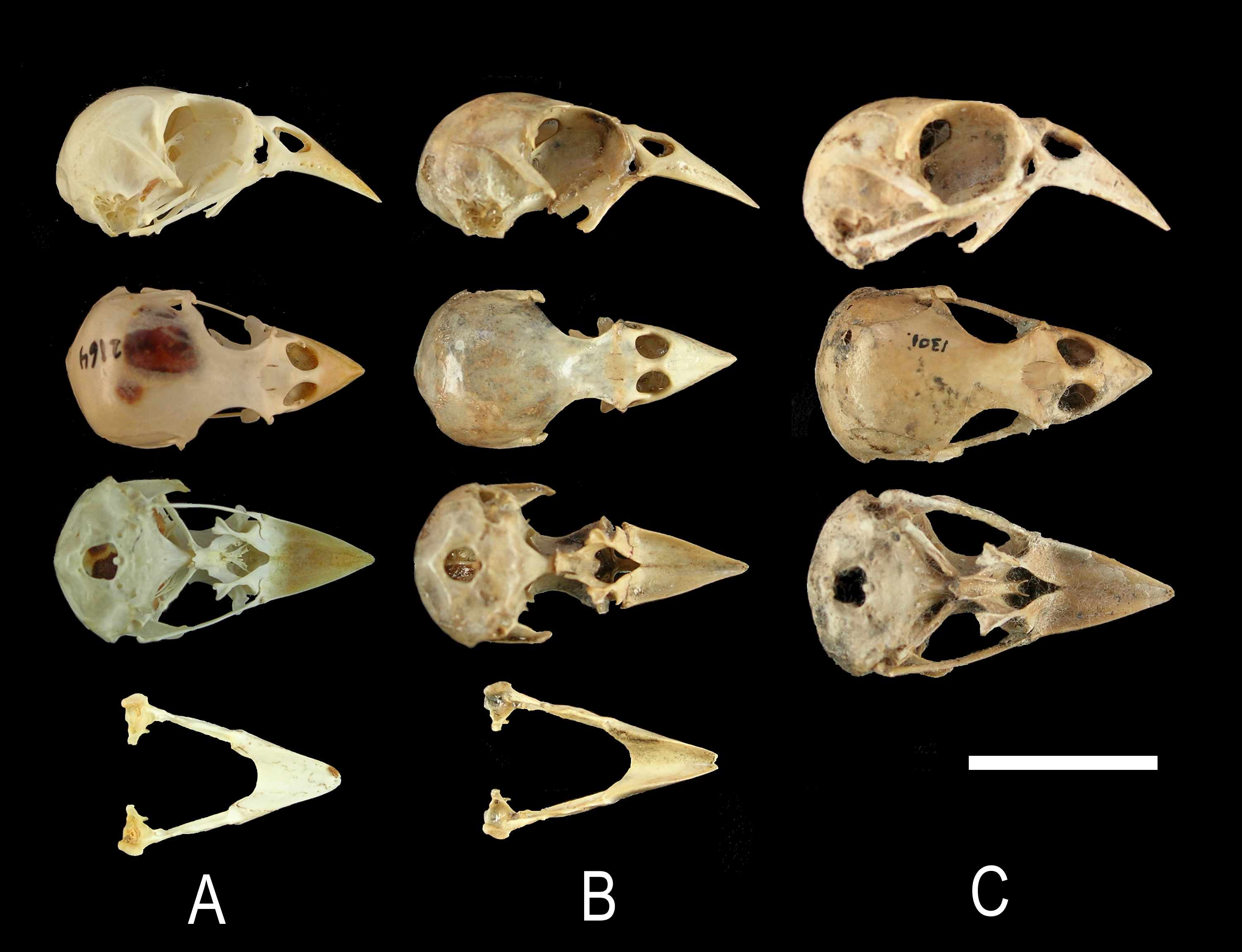 Comparison of cranium and mandible of Carduelis aurelioi n. sp. Cranium and mandible of Carduelis aurelioi (B) , DZUL 3047 Holotype, C. chloris (A), IMEDEA 2164, and C. triasi (C), DZUL 1301. From up to down: cranium, right lateral, dorsal and ventral views, and mandibles dorsal views. The mandible of C. triasi has not yet been found. Scale = 2 cm.